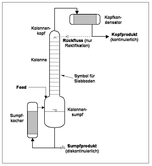 scheme of a batch rectification column